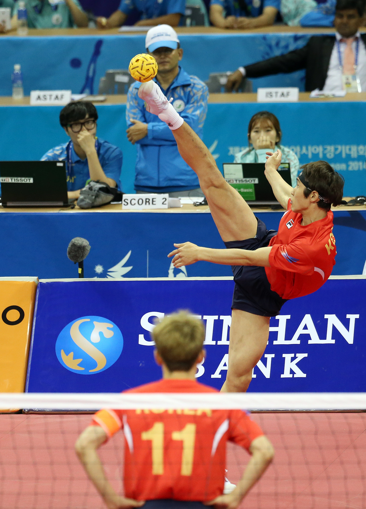 Sepaktakraw, 2014 Asian Games